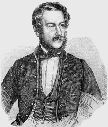 László Szalay (1813–1864) Hungarian historiographer, jurist, liberal politician, publicist.